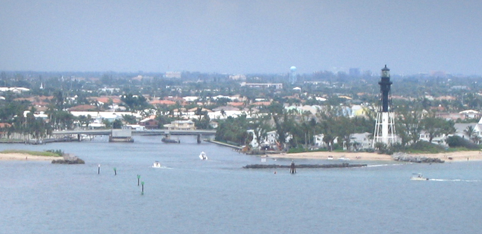 Hillsboro Inlet Light next to the State Road A1A bridge crossing the Hillsboro Inlet between Pompano Beach and Hillsboro Beach, Florida.